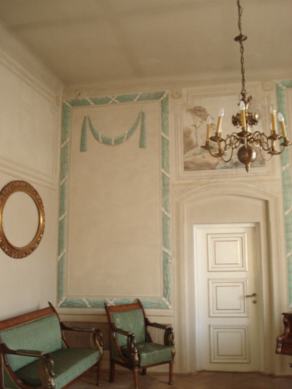 The Green Room in Szydłowiec Castle